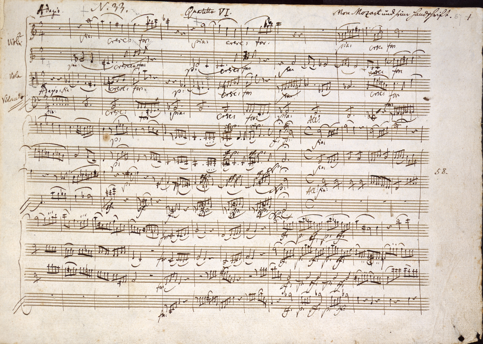 (Whole folio) Mozart MS (Whole folio) Beginning of Quartet in C [K.465]